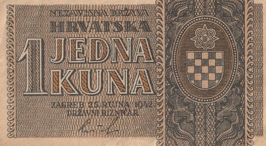 1 kuna 25 rujna 1942